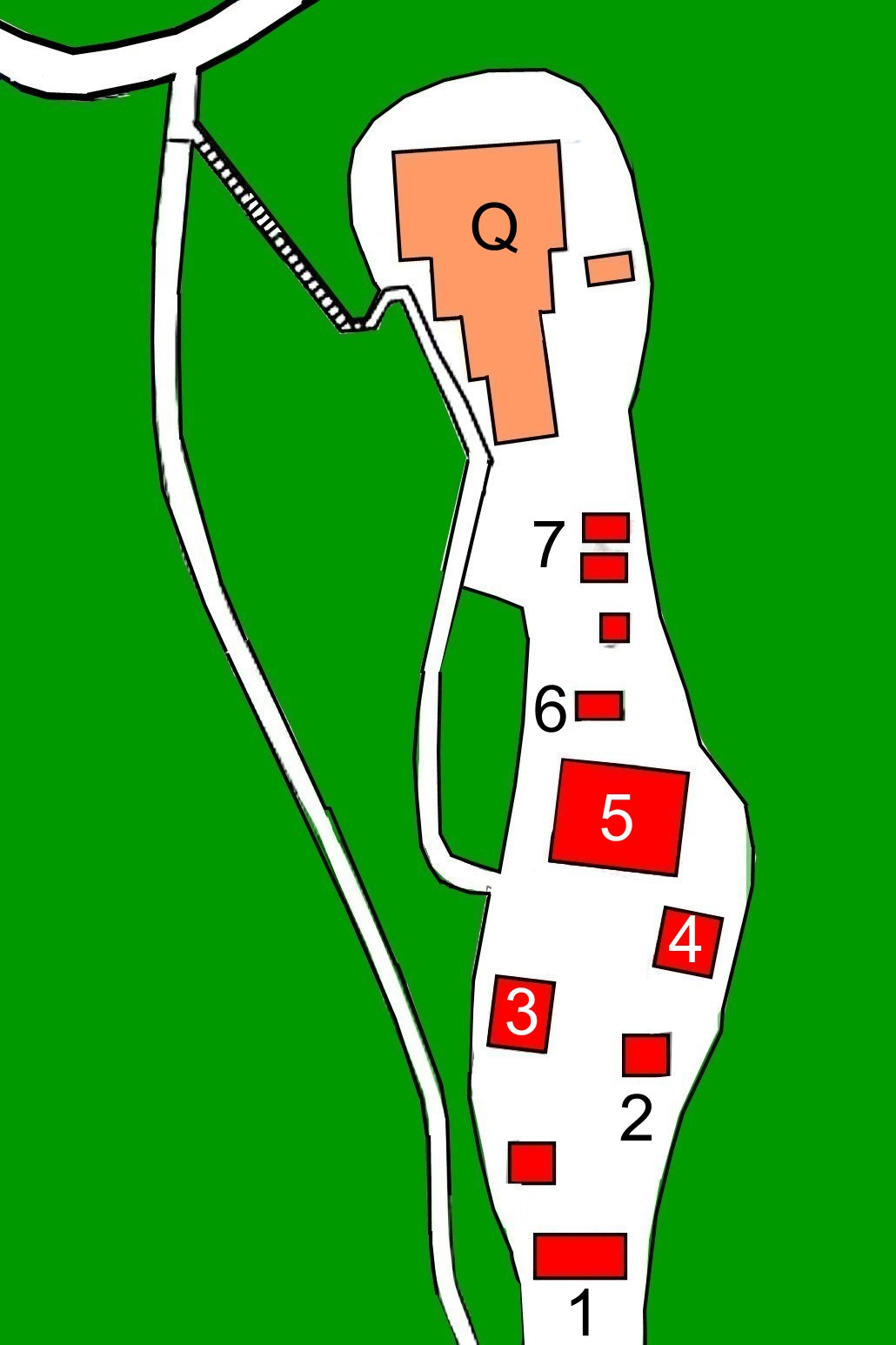 Layout of Hotsumisaki-ji, Prefecture Kôchi, Japan